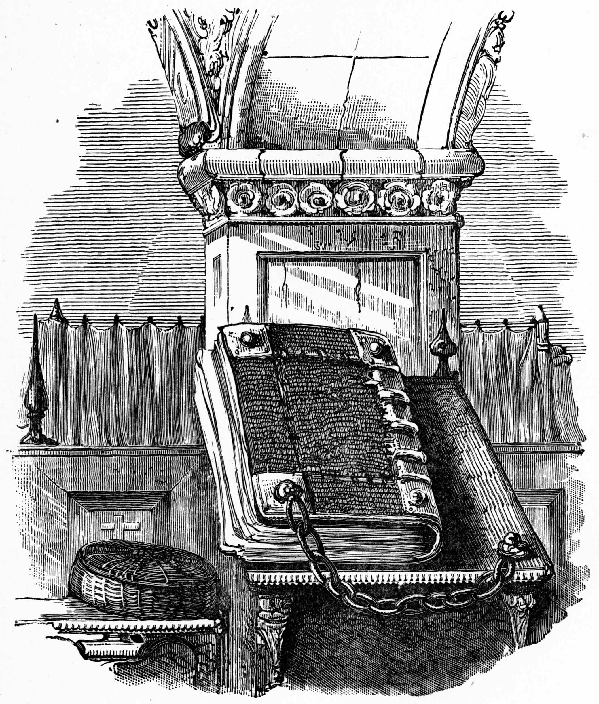 Frontispiece with a chained Bible from Andrews, William: “Curiosities of the Church: Studies of Curious Customs, Services and Records” (1891)